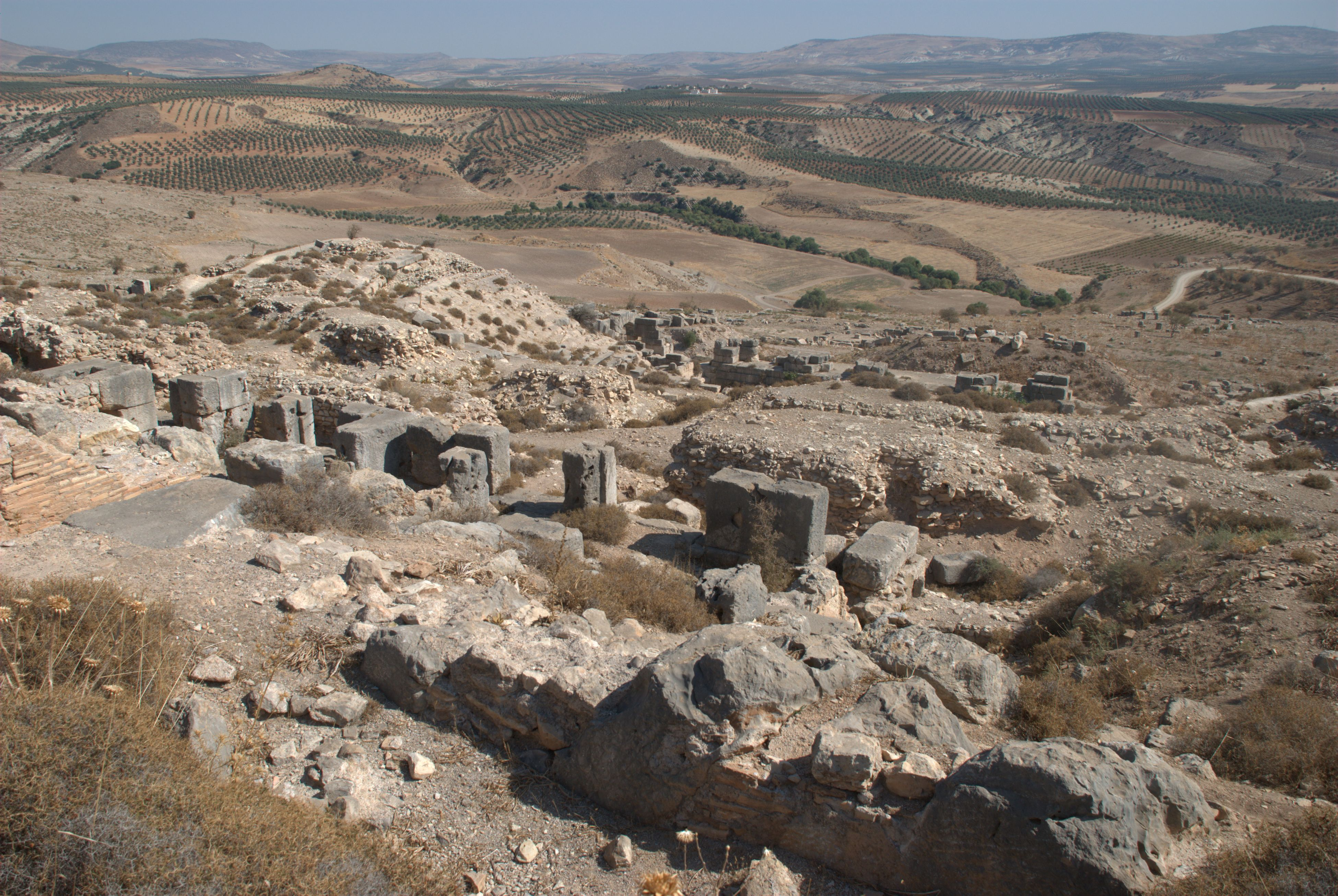 North part of Kyrrhos, Nebi Huri, Syria, towards east